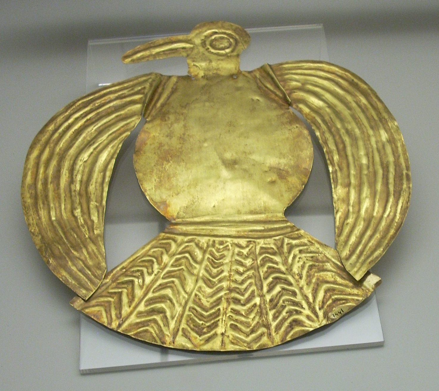 Gold Inca bird, 1400-1533 AD, Peru. Item 7441 in the Museum of the Americas, Madrid.